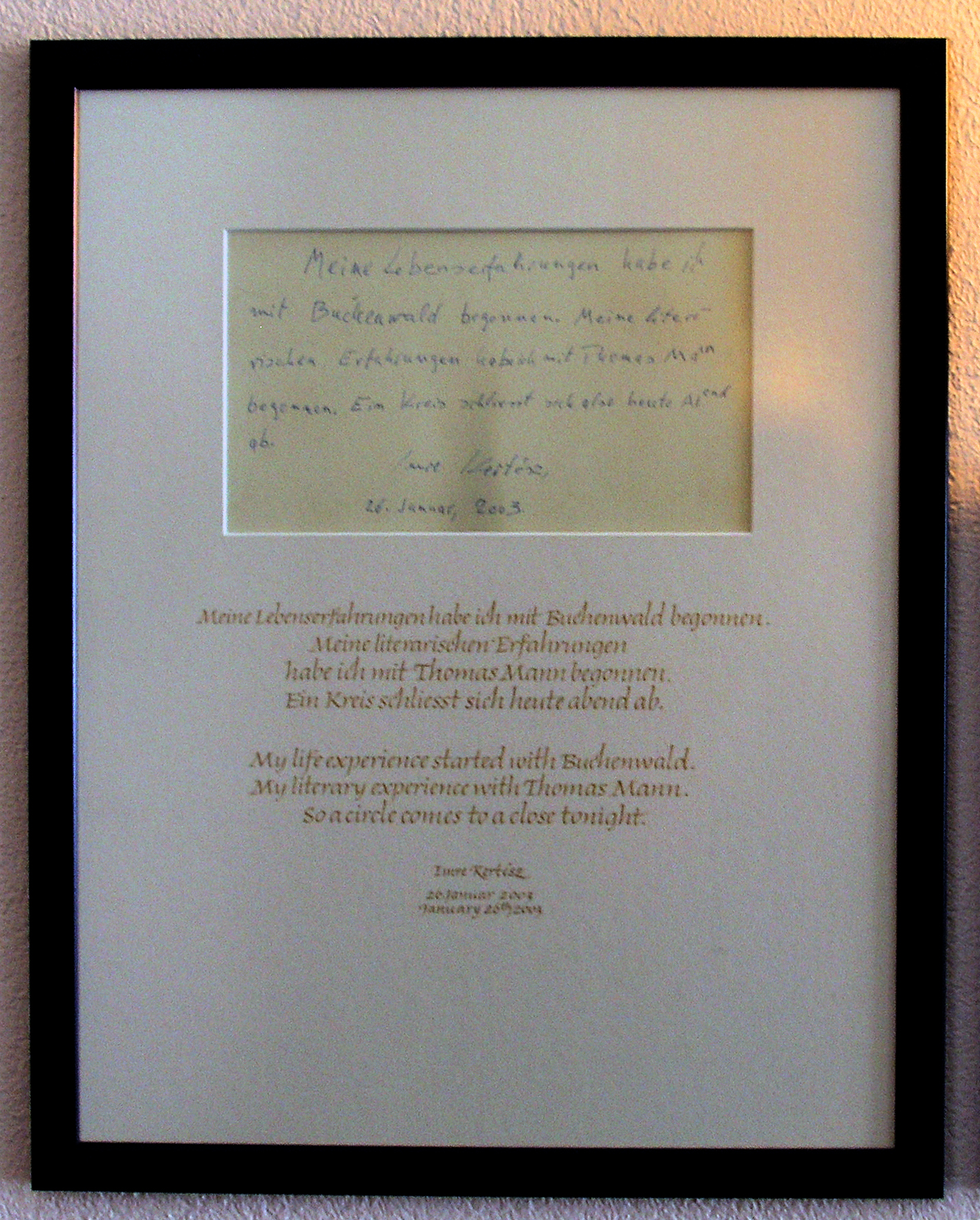 guest book, Hotel Elephant, Imre Kertész, Markt 19, Weimar, Germany Koordinate:52°58′44″N 11°19′49″E / 52.97889°N 11.33028°E